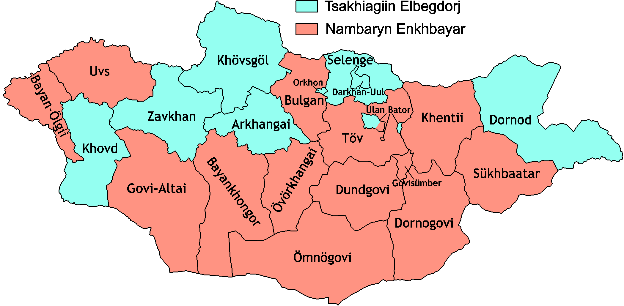 election statistic data from [1] (offical Montsame Agency)